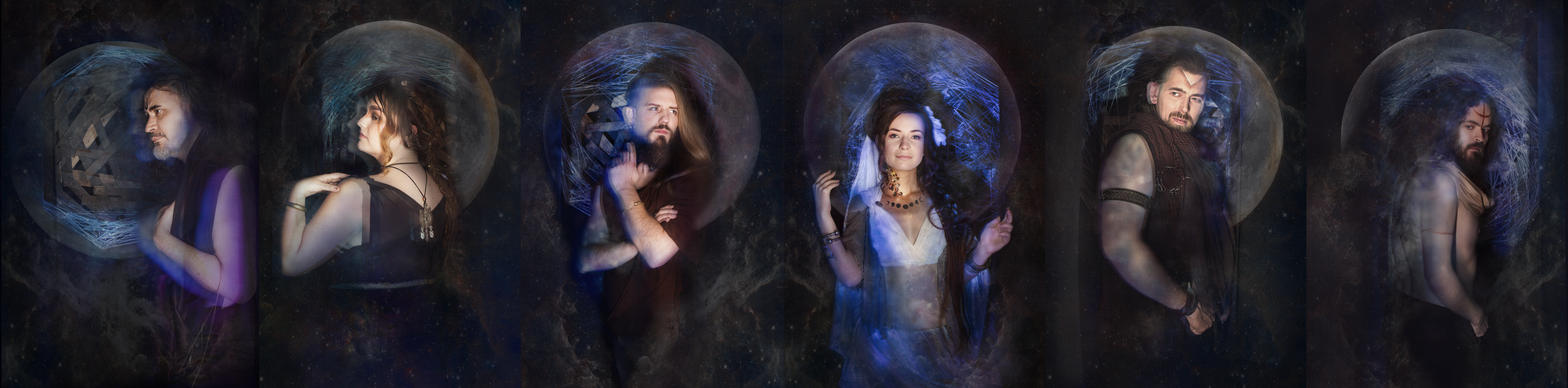 The band Cesair (Netherlands) Photography: Sonja de Ridder Concept & Styling: Monique van Deursen Hair & Styling: Jessica van Deursen MUA: Linda Brakenhoff